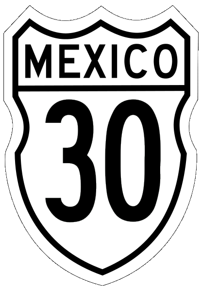 Mexico Federal Highway 30 shield.